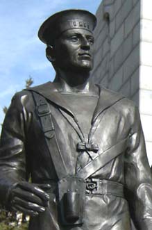 Statue of a soldier standing at the War Monument in Brantford, Ontario